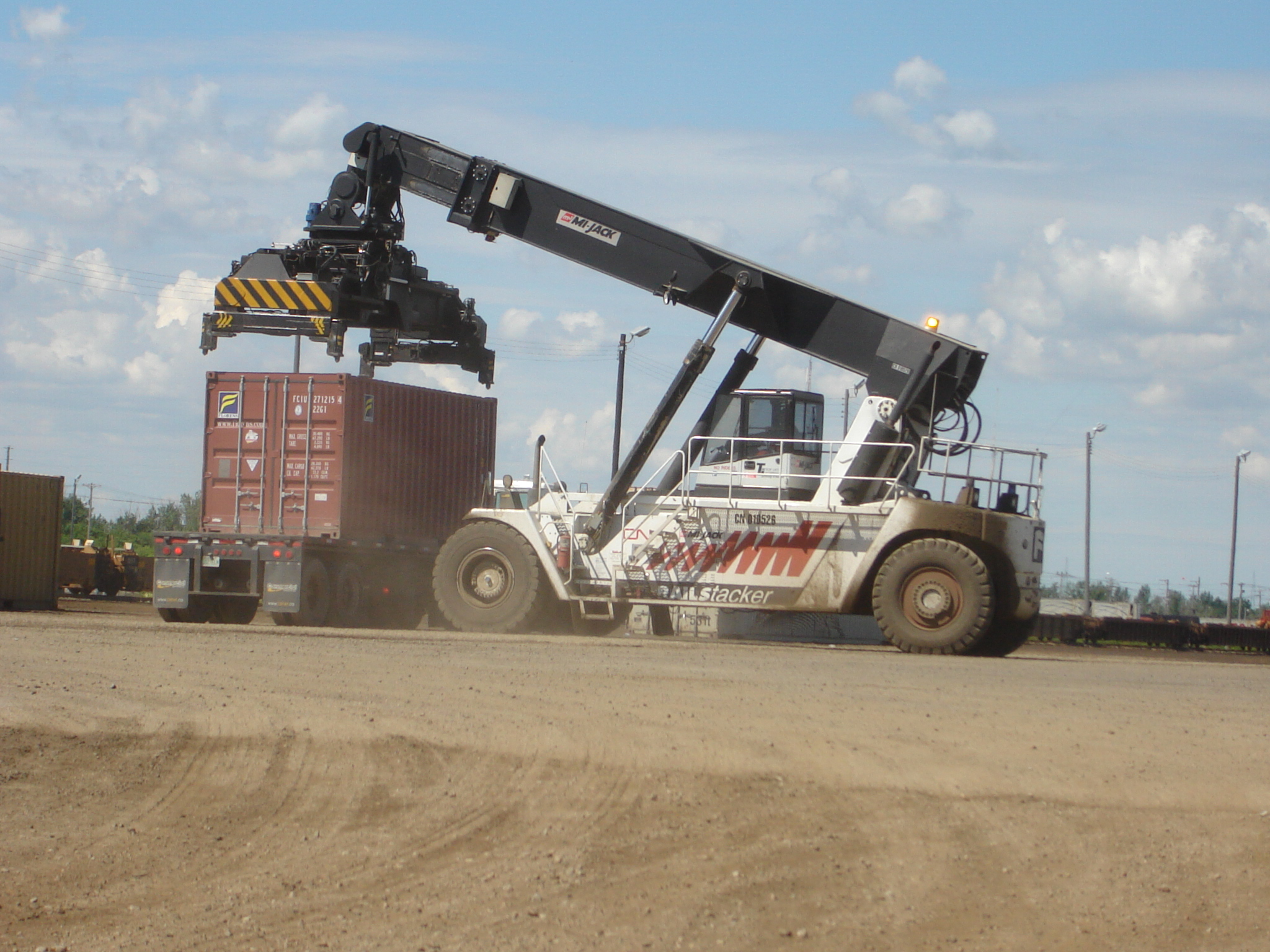 CN Chappell Yards Box Car Loader CN yards Management Area Saskatoon|Saskatoon